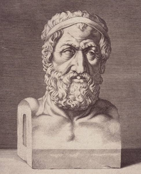 Reproduction of an engraving published in Diogenis Laertii De Vitis by Marcus Meibomius, probably published in 1692 (as claimed on the image's page), apparently based on a photograph taken in 1901. This file is from the Life image collection hosted by Google.